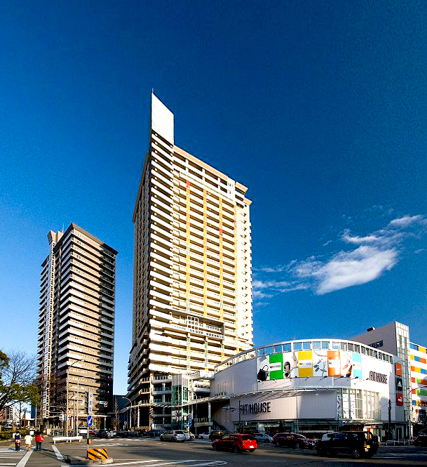 center: Life and Senior House Chikusa left: Lions Tower Chikusa right: FIT HOUSE Chikusa